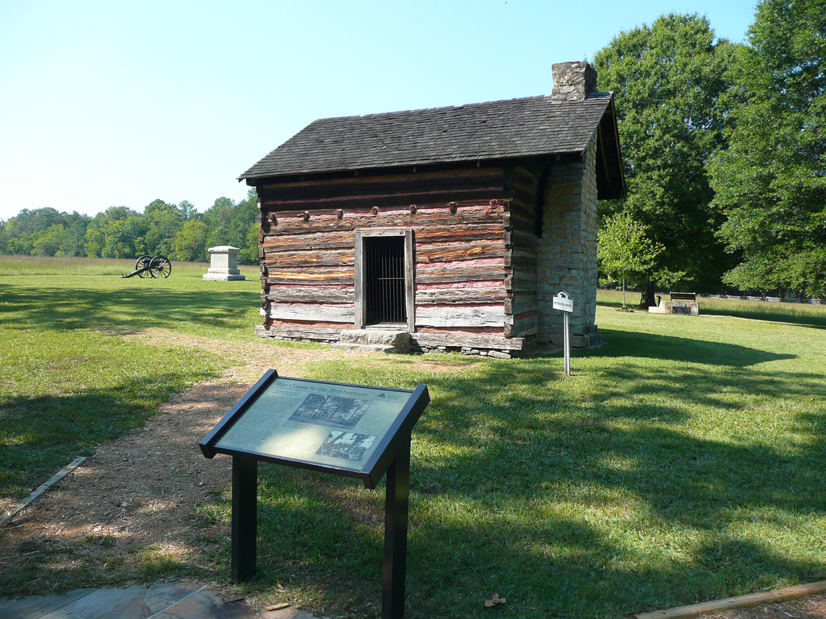 Photograph of the Brotherton Cabin at Chickamauga and Chattanooga National Military Park.